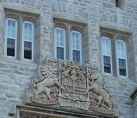 Coat of arms of Canada outside Currie Hall in the Mackenzie Building, Royal Military College of Canada, Kingston, Ontario, Canada. The limestone sculpture was sculpted by Maurice Joanisse, then an apprentice carver under the supervision of Eleanor Milne, then Official Sculptor of Canada 1962 to 1993. Maurice Joanisse later served as the Official Sculptor of Canada – 1993 to 2006.